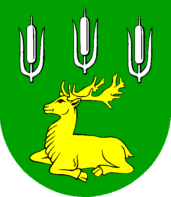 Coat of arms of the municipality Haßmoor in Schleswig-Holstein, Germany.